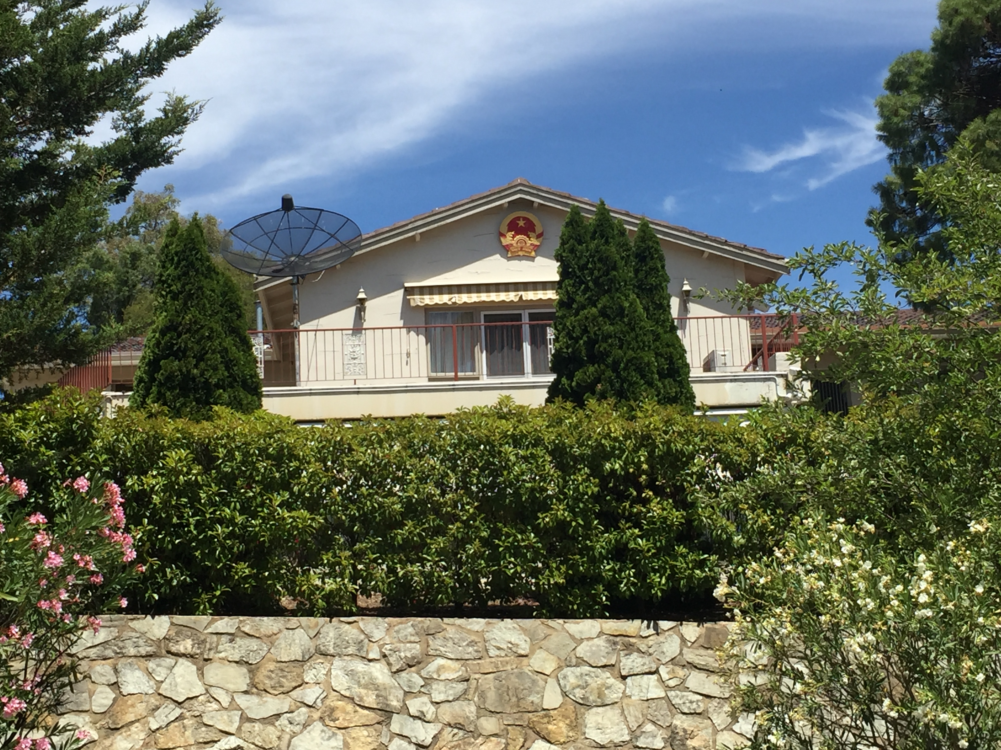 The building of embassy of Vietnam in Canberra, Australia